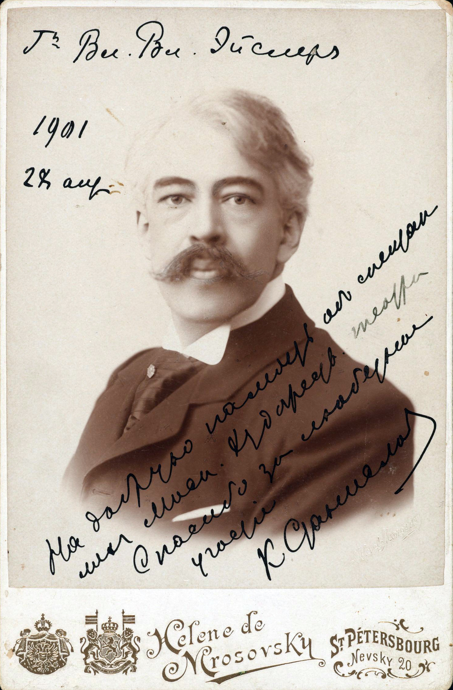 Cabinet card image of Russian actor Konstantin Stanislavsky (1853-1938), ca. 1901. Signed and dated by subject. Slightly edited for color, brightness, and contrast. *2003MT-267, Harvard Theatre Collection, Houghton Library, Harvard University